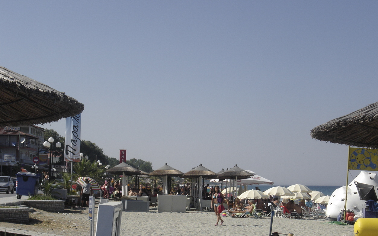 The beach of Leptokaria.